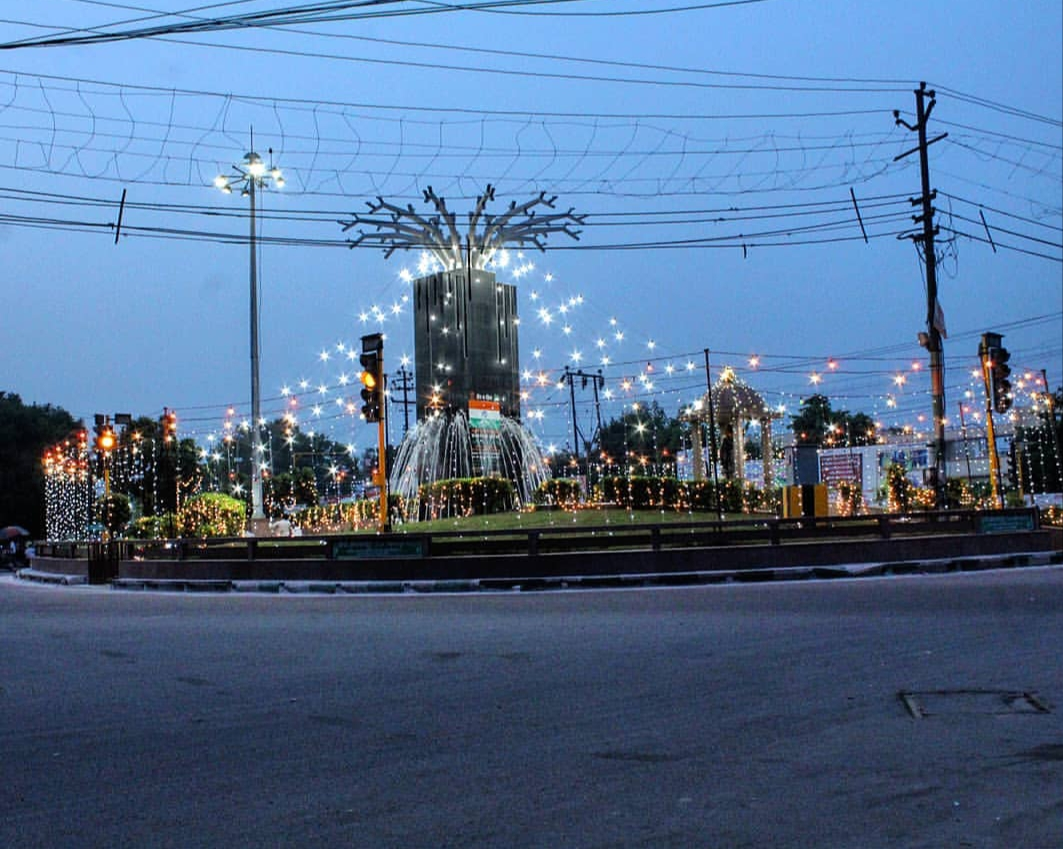 This place was perhaps called Katl - e - aam and later distorted to Kaala Aaam. This is where British killed the people of Bulandshahr. Second version is that there was a huge Mango Tree (Aam) on which British had hanged people of Bulandshahr who fought against them.